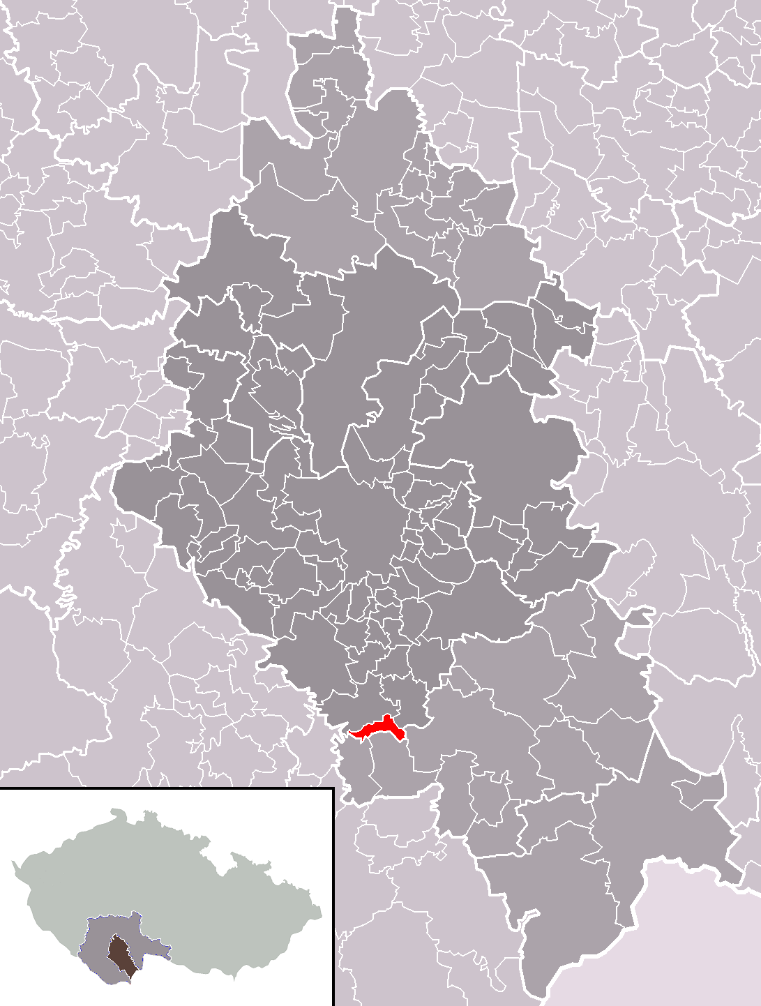 Location of Mokrý Lom municipality within České Budějovice District and administrative area of České Budějovice as a Municipality with Extended Competence.